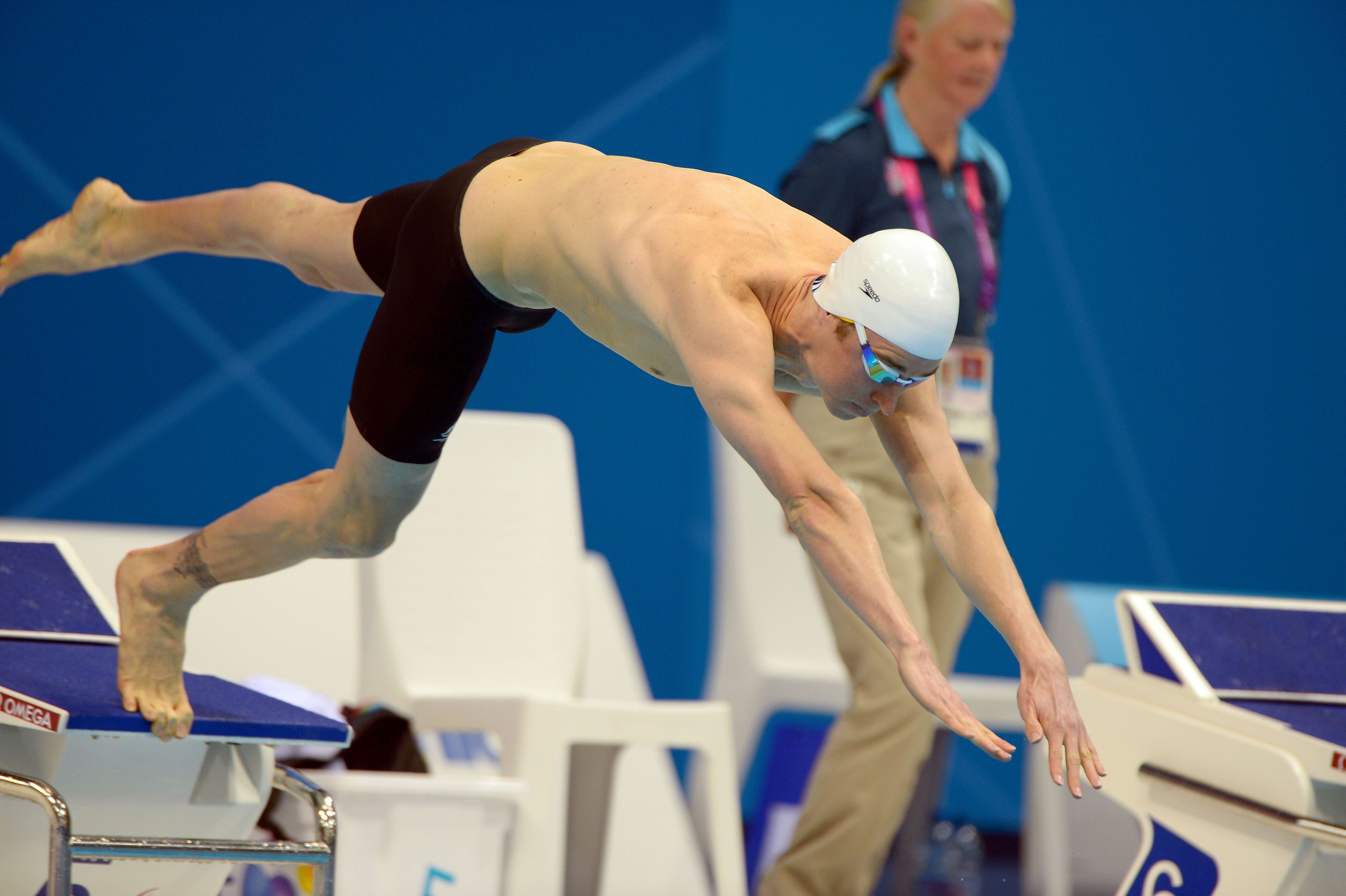 Photograph of Australian Paralympic team member Andrew Pasterfield at the 2012 Summer Paralympic Games in London